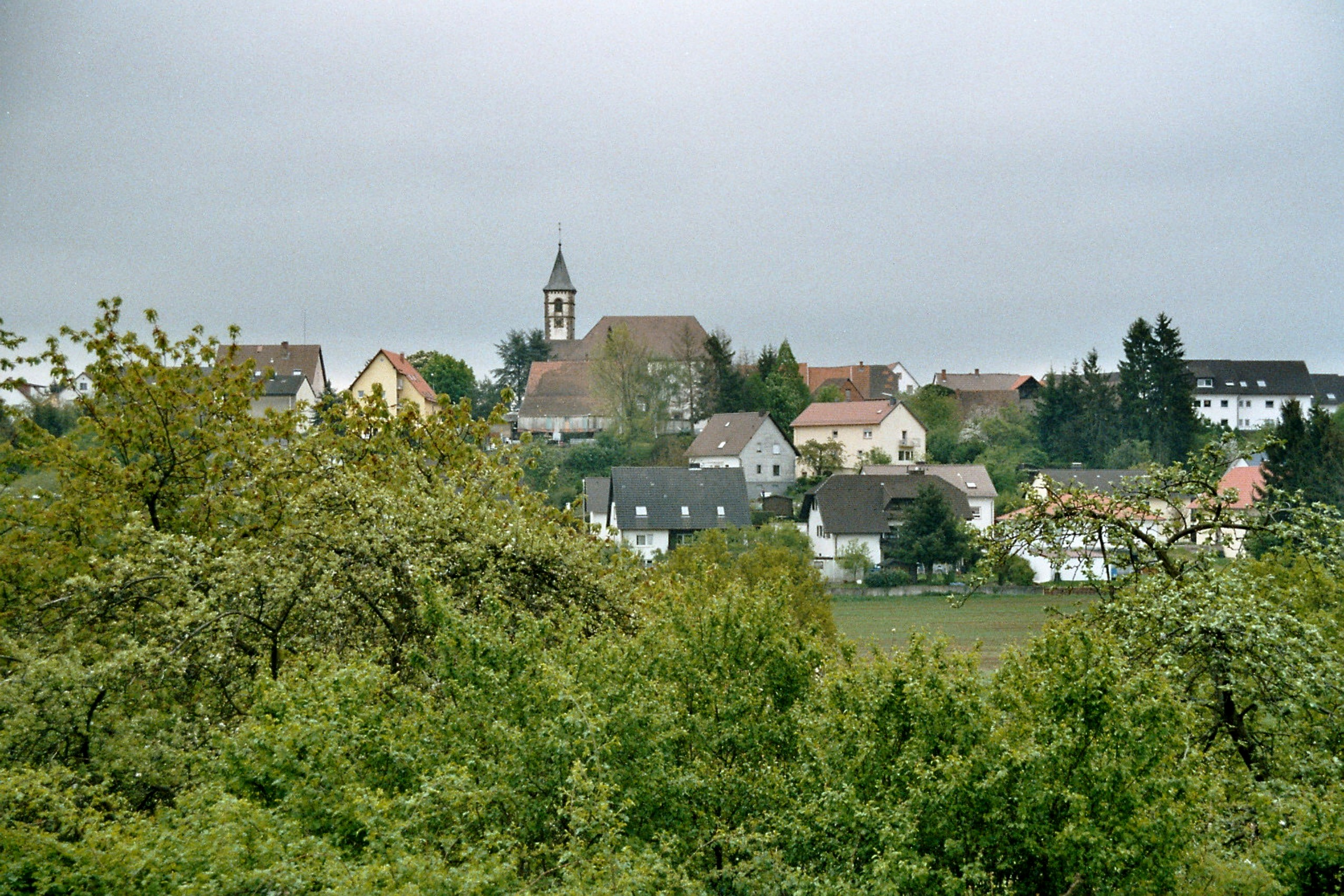 Schönenberg-Kübelberg, the village